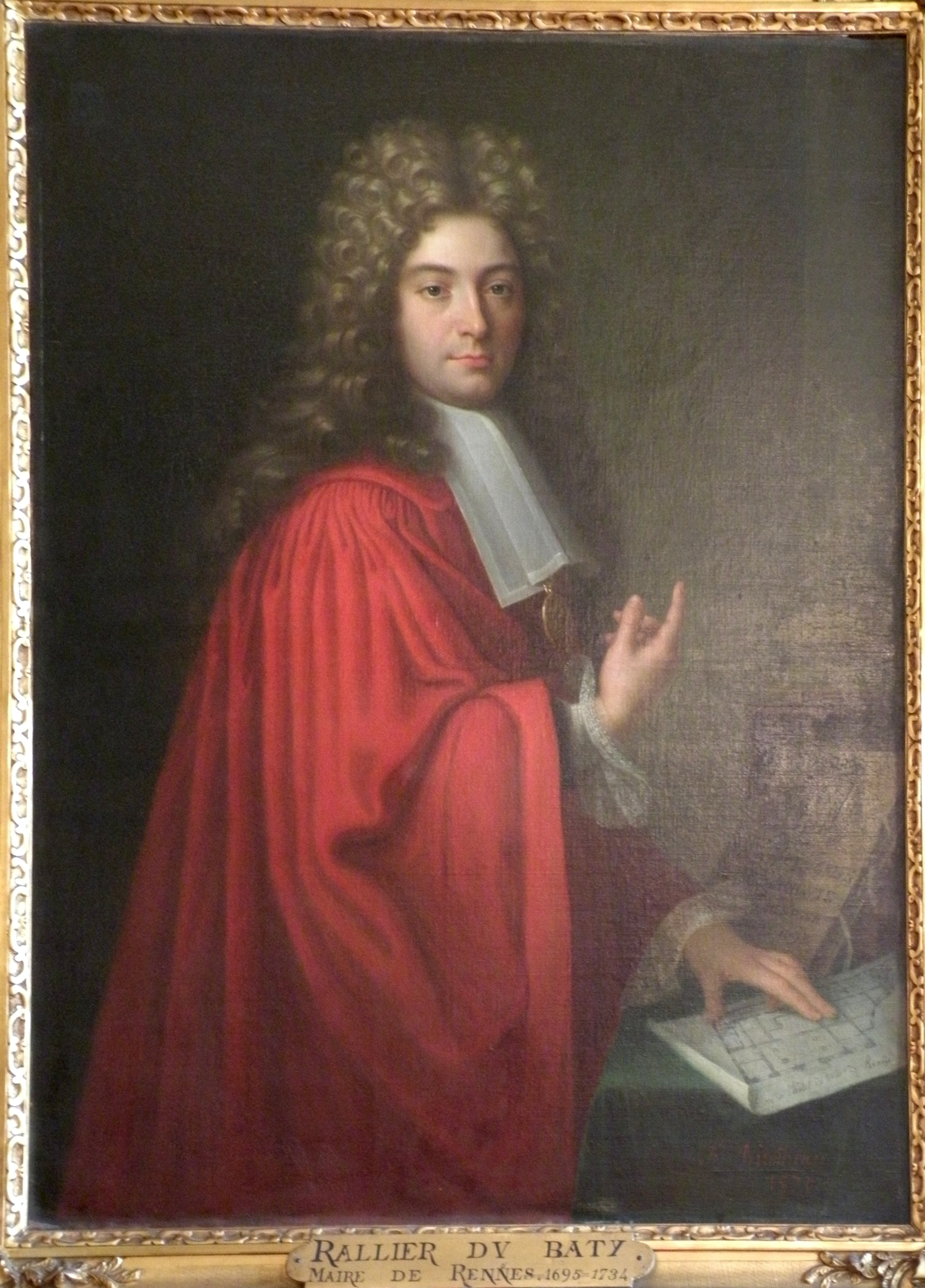 Portrait of Toussaint-François Rallier du Baty (1665-1734), mayor of Rennes, in the town hall of Rennes.